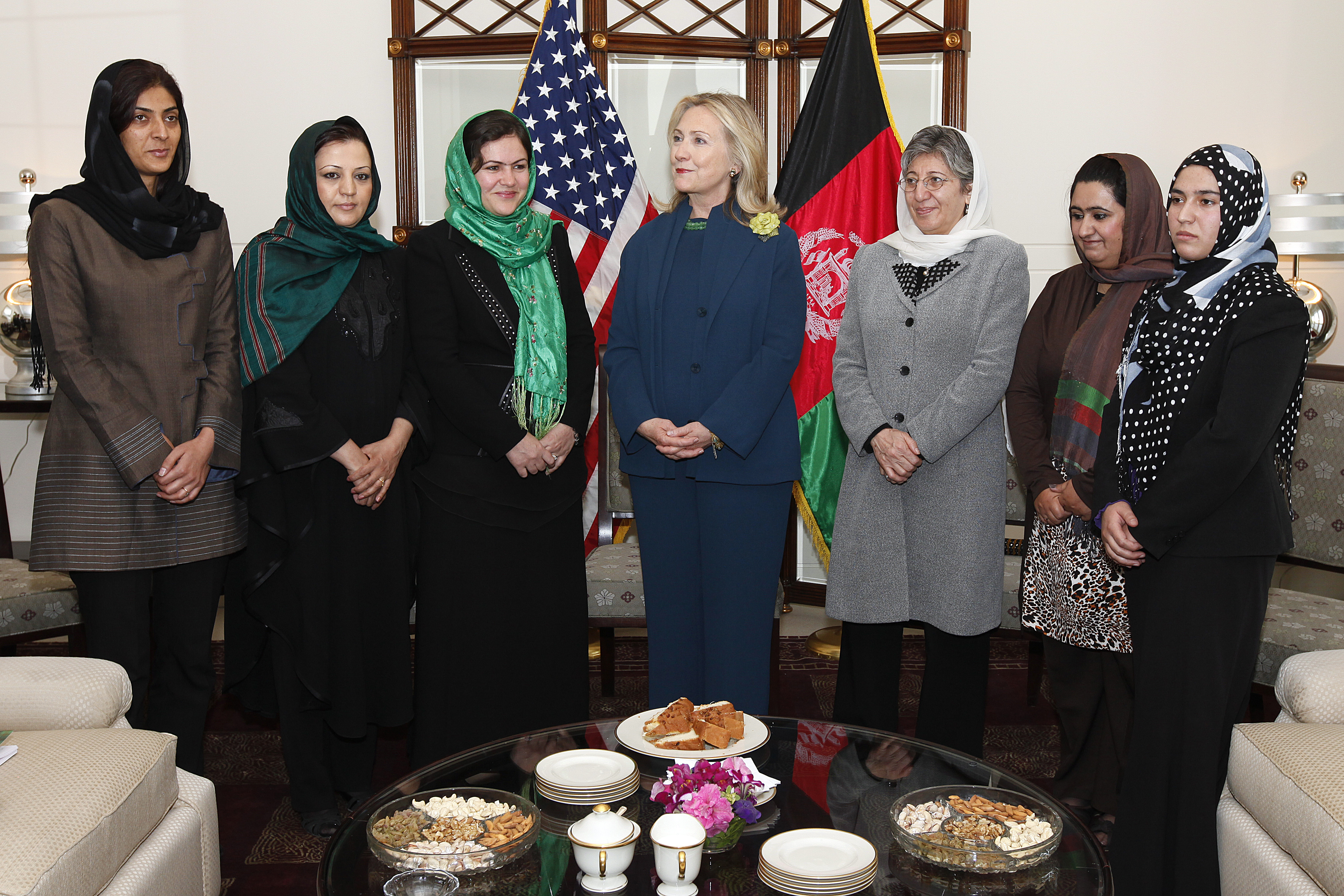 U.S. Secretary of State Hillary Rodham Clinton standing with female Afghan politicians in Kabul, Afghanistan.